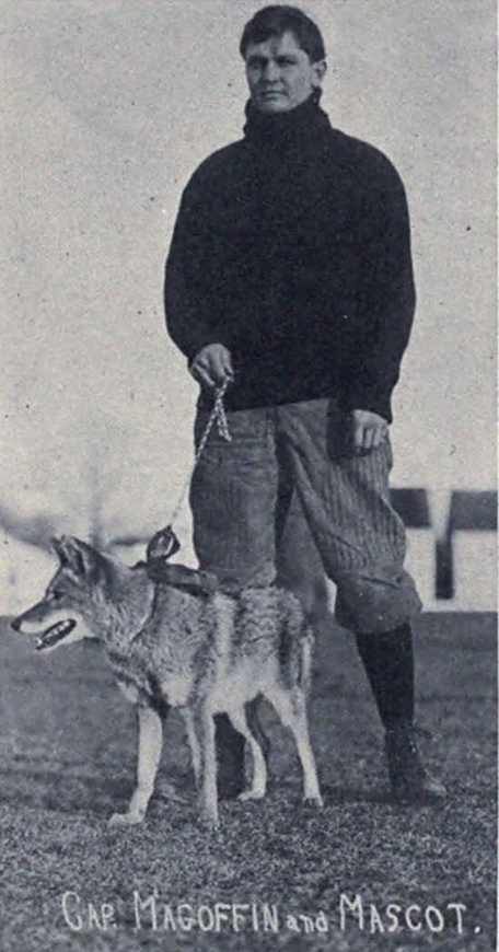 Photograph of "Mag and the Mascot", Paul Magoffin and the University of Michigan football team mascote in 1907